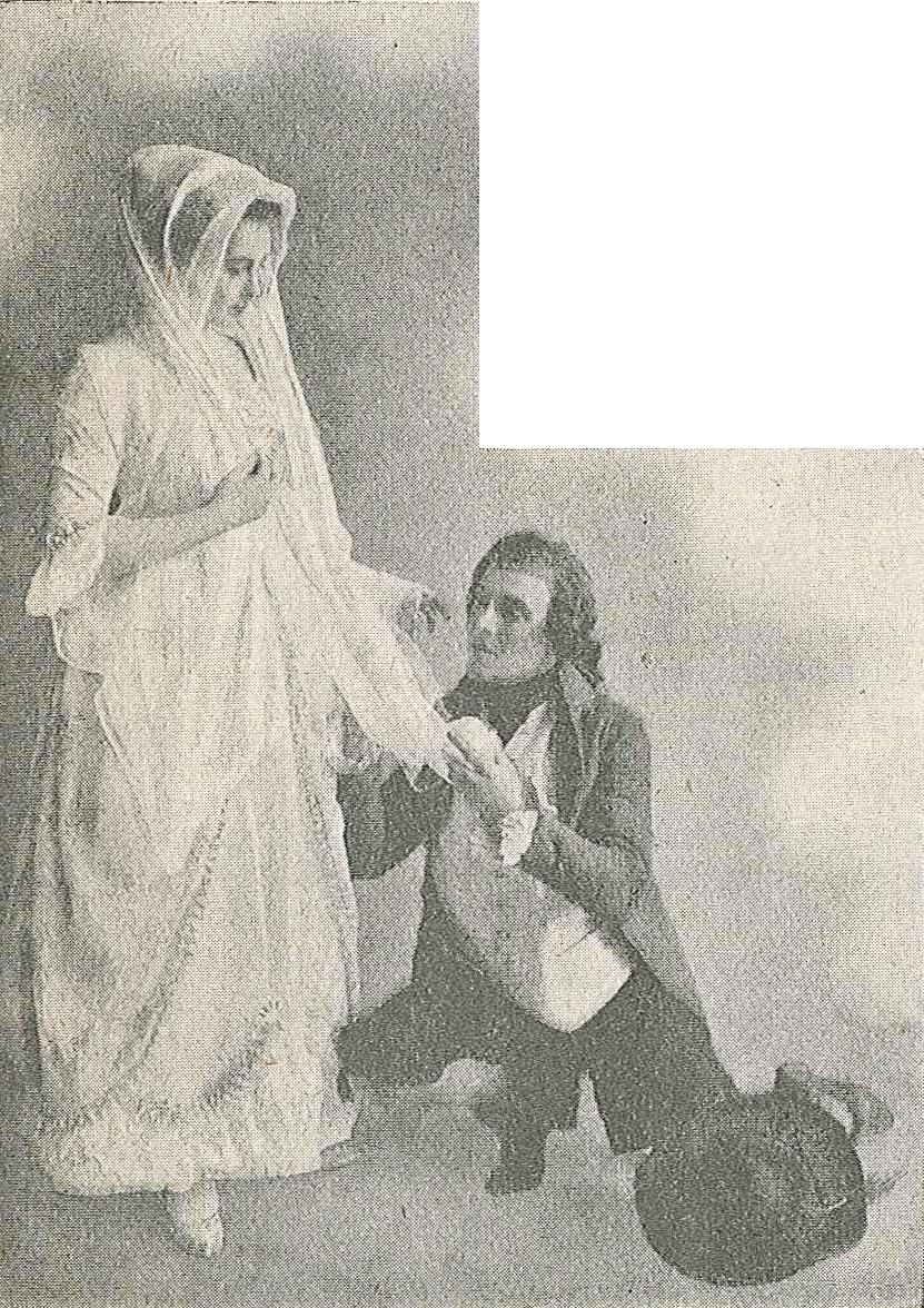 Scene from Edmond Rostand's play Les romanesques (Swedish: Romantik) at the Royal Dramatic Theatre in Stockholm 1911 with Astri Torsell and Gösta Hillberg.